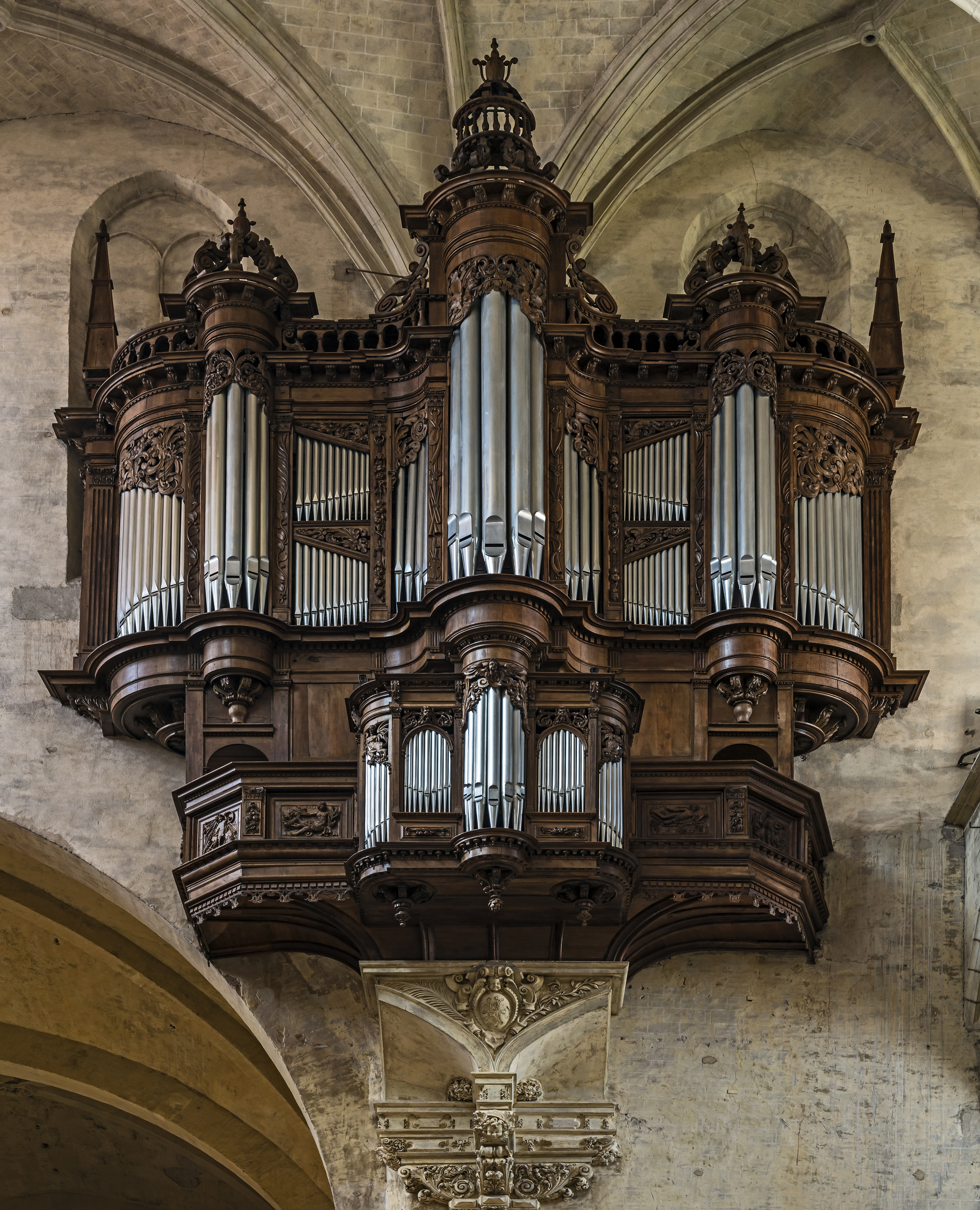 Toulouse Cathedral- The gallery organ - Buffet was built in 1612 and 1614 by two carpenters Toulouse: Louis Behorry and Antoine Moréjot in 1612. It is top of 12 m and 10 m wide. Instrumental part was restored 1973-1977 by the organ builder Alfred Kernn.